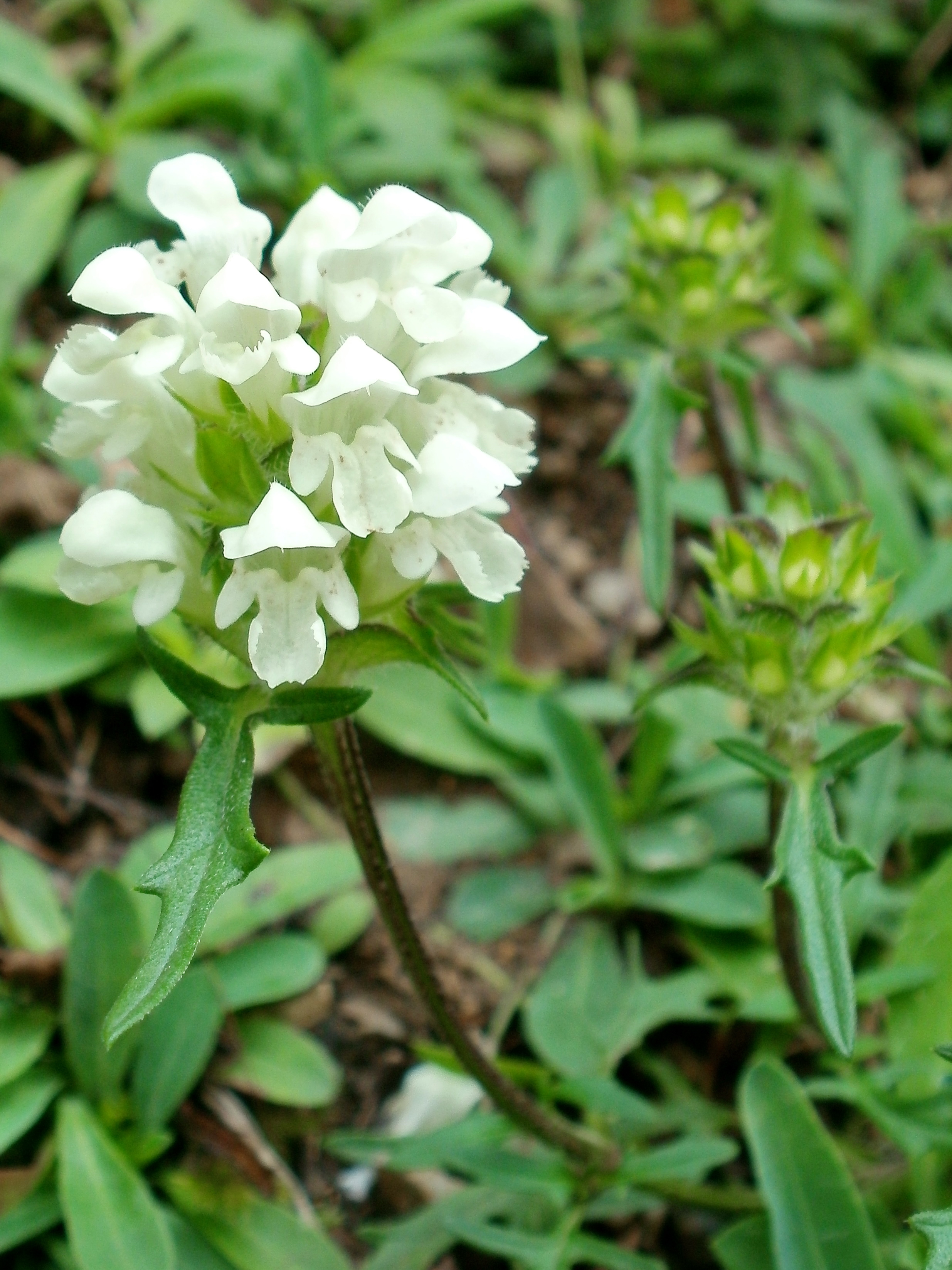 Prunella laciniata, inflorescence.